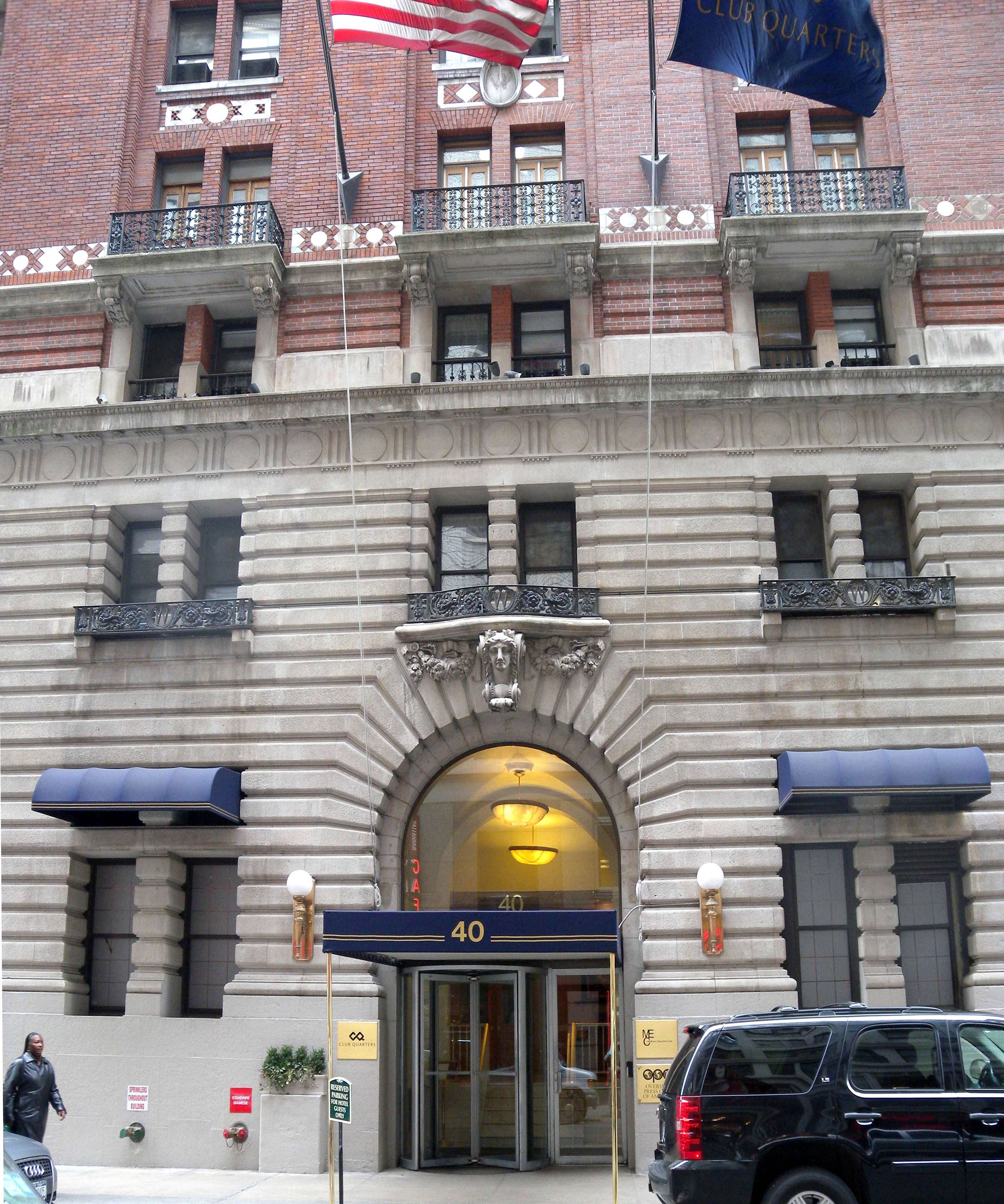 Looking south across West 45th Street at Overseas Press Club